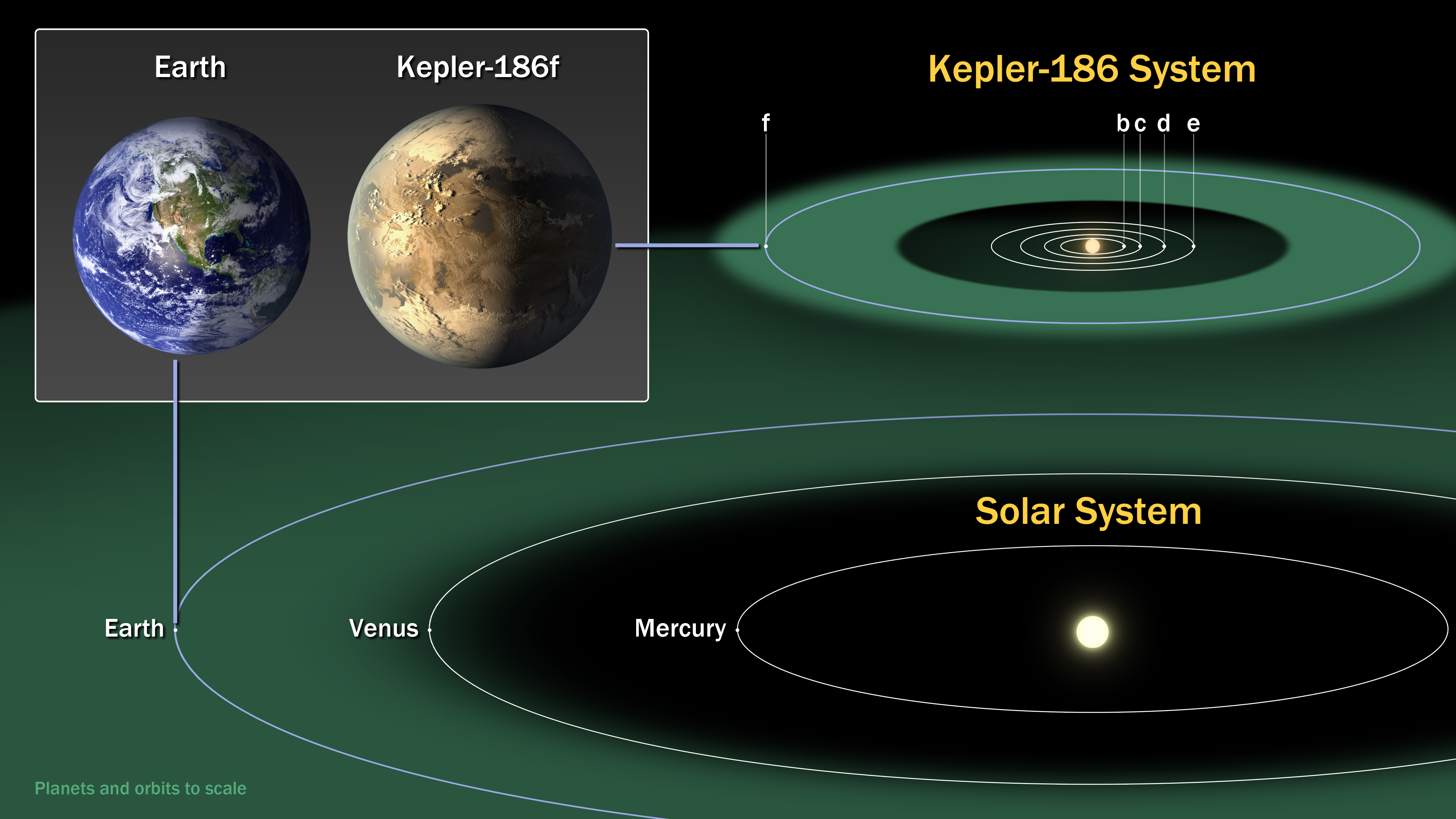 Kepler-186 and the Solar System The diagram compares the planets of our inner solar system to Kepler-186, a five-planet star system about 500 light-years from Earth in the constellation Cygnus. The five planets of Kepler-186 orbit an M dwarf, a star that is is half the size and mass of the sun. The Kepler-186 system is home to Kepler-186f, the first validated Earth-size planet orbiting a distant star in the habitable zone—a range of distance from a star where liquid water might pool on the planet's surface. The discovery of Kepler-186f confirms that Earth-size planets exist in the habitable zones of other stars and signals a significant step toward finding a world similar to Earth. The size of Kepler-186f is known to be less ten percent larger than Earth, but its mass and composition are not known. Kepler-186f orbits its star once every 130 days, receiving one-third the heat energy that Earth does from the sun. This places the planet near the outer edge of the habitable zone. The inner four companion planets each measure less than fifty percent the size of Earth. Kepler-186b, Kepler-186c, Kepler-186d and Kepler-186, orbit every 4, 7, 13 and 22 days, respectively, making them very hot and inhospitable for life as we know it. The Kepler space telescope infers the existence of a planet by the amount of starlight blocked when it passes in front of its star. From these data, a planet's radius, orbital period and the amount of energy recieved from the host star can be determined. The artistic concept of Kepler-186f is the result of scientists and artists collaborating to imagine the appearance of these distant worlds.